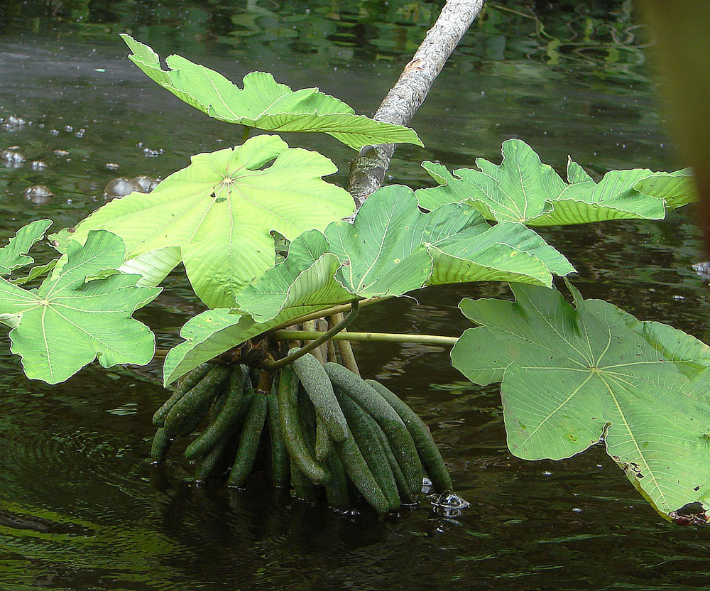 This species is a seasonal flood specialist and appears to use the river and fish to disperse its seeds.